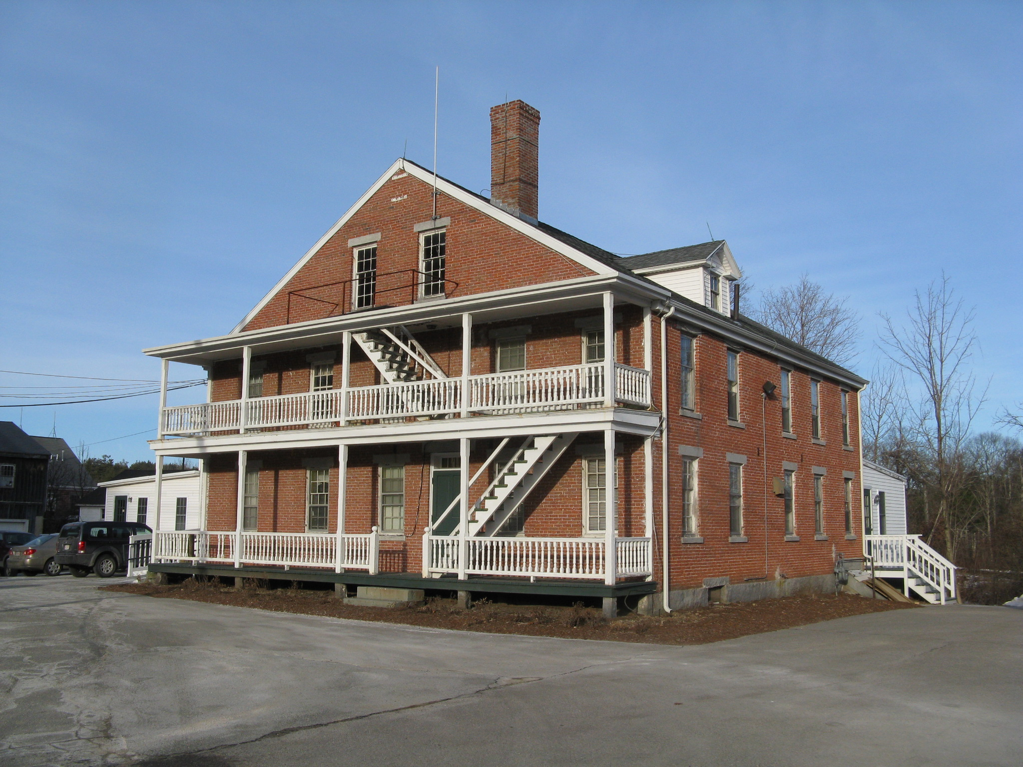 Westford Town Farm, Westford Massachusetts - now houses the Town Department of Recreation